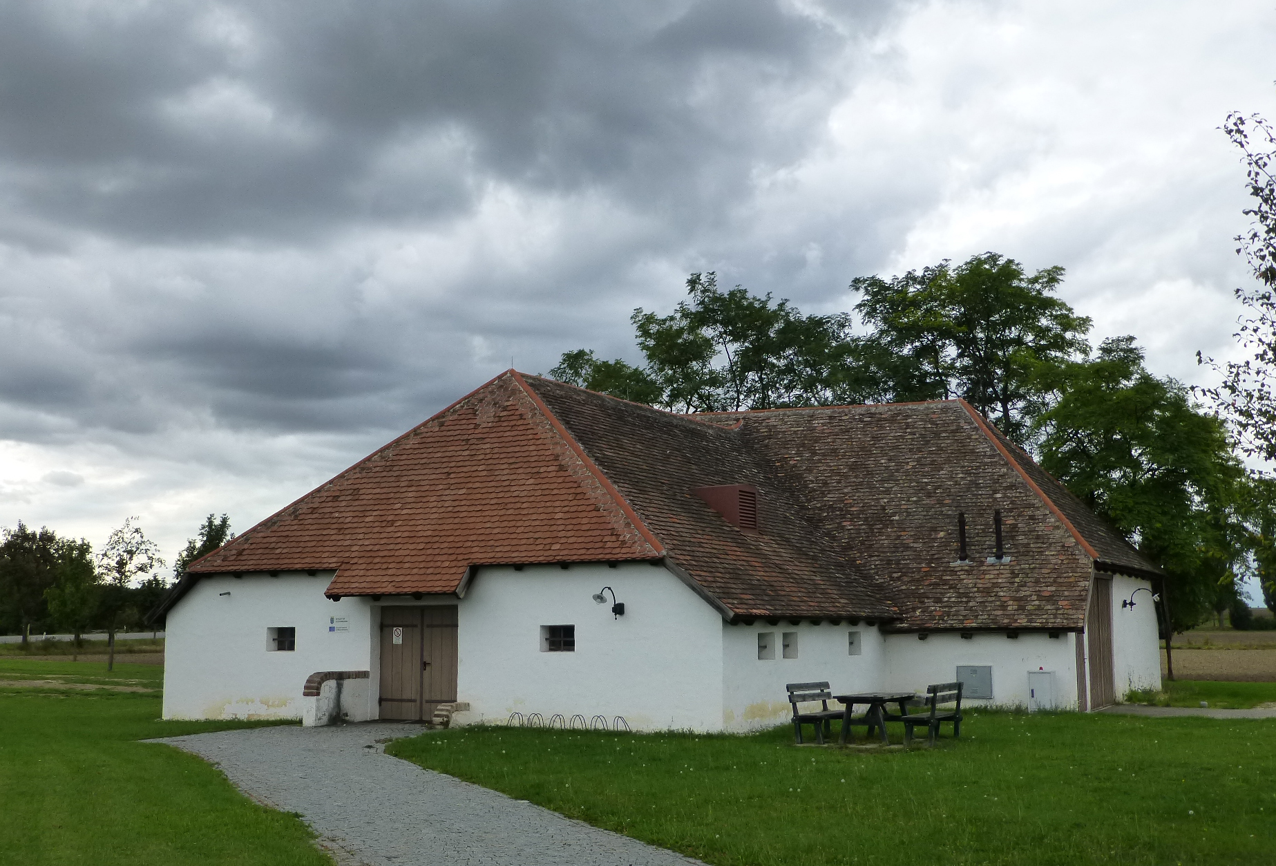 Preserved typical farm in Alberndorf im Pulkautal (road 45, near Hadres, not the hamlet of Raabs an der Thaya), Lower Austria.